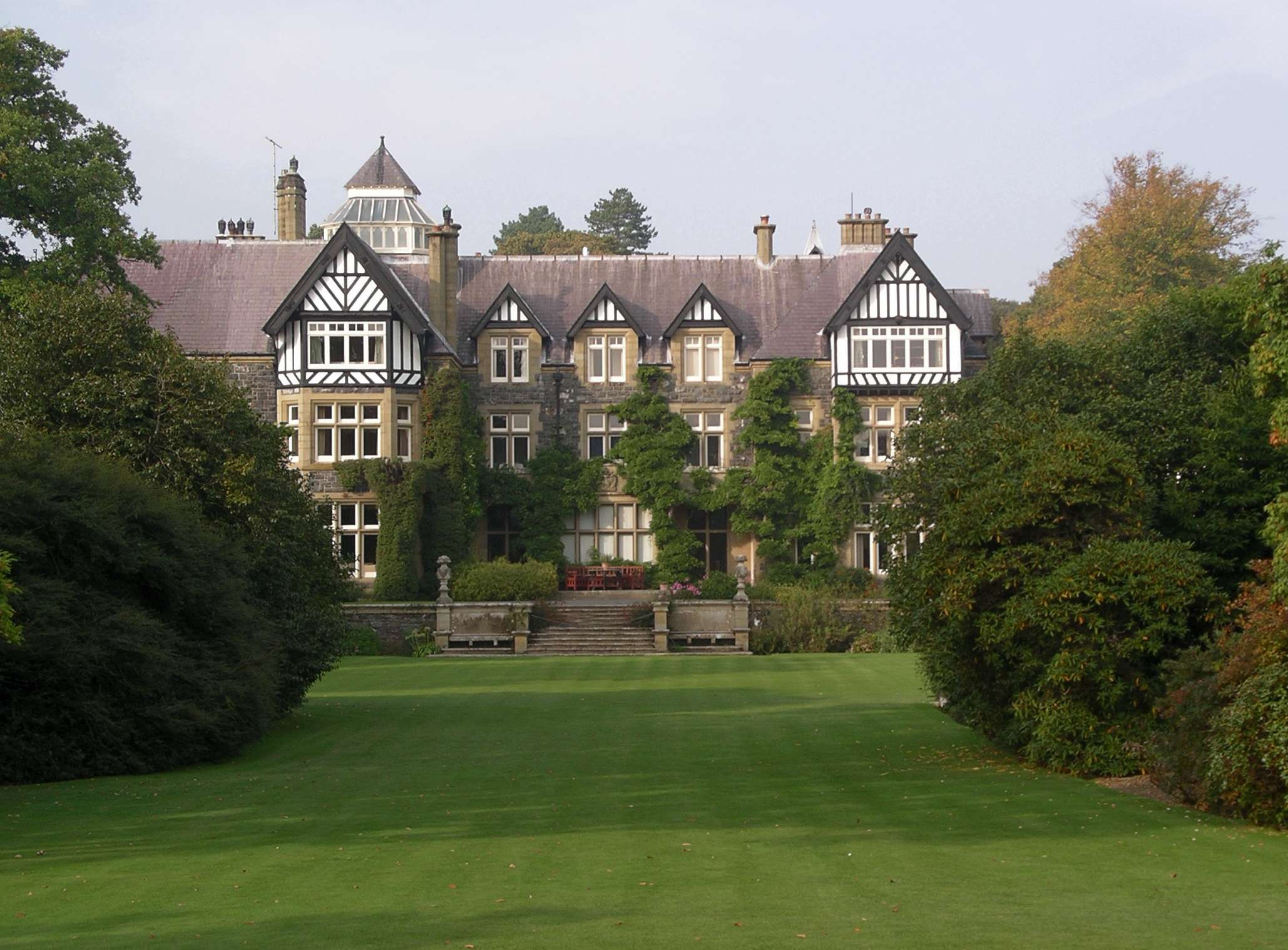 Bodnant House, Bodnant Gardens, October 2005 Author: User:Velela. Location: Bodnant Garden, near Conwy Source: Personal photograph taken by Author Technical data: Pentax Optio555 digital camera.